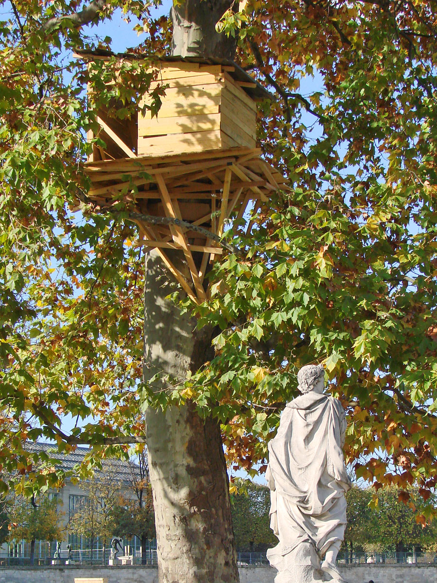 Tree Huts in Madison Square Park